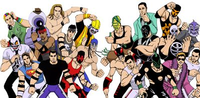 I am the owner of CHIKARA. This art was created for my company by Marco D'Alfonso in 2004. It has been made into wallpapers for my website gallery and other projects. We have also used it on the cover of our Yearbook. I believe it is suitable for use at wikipedia, and anyone may email me with questions regarding my ownership of the art. - the original uploader Chikarawrestling